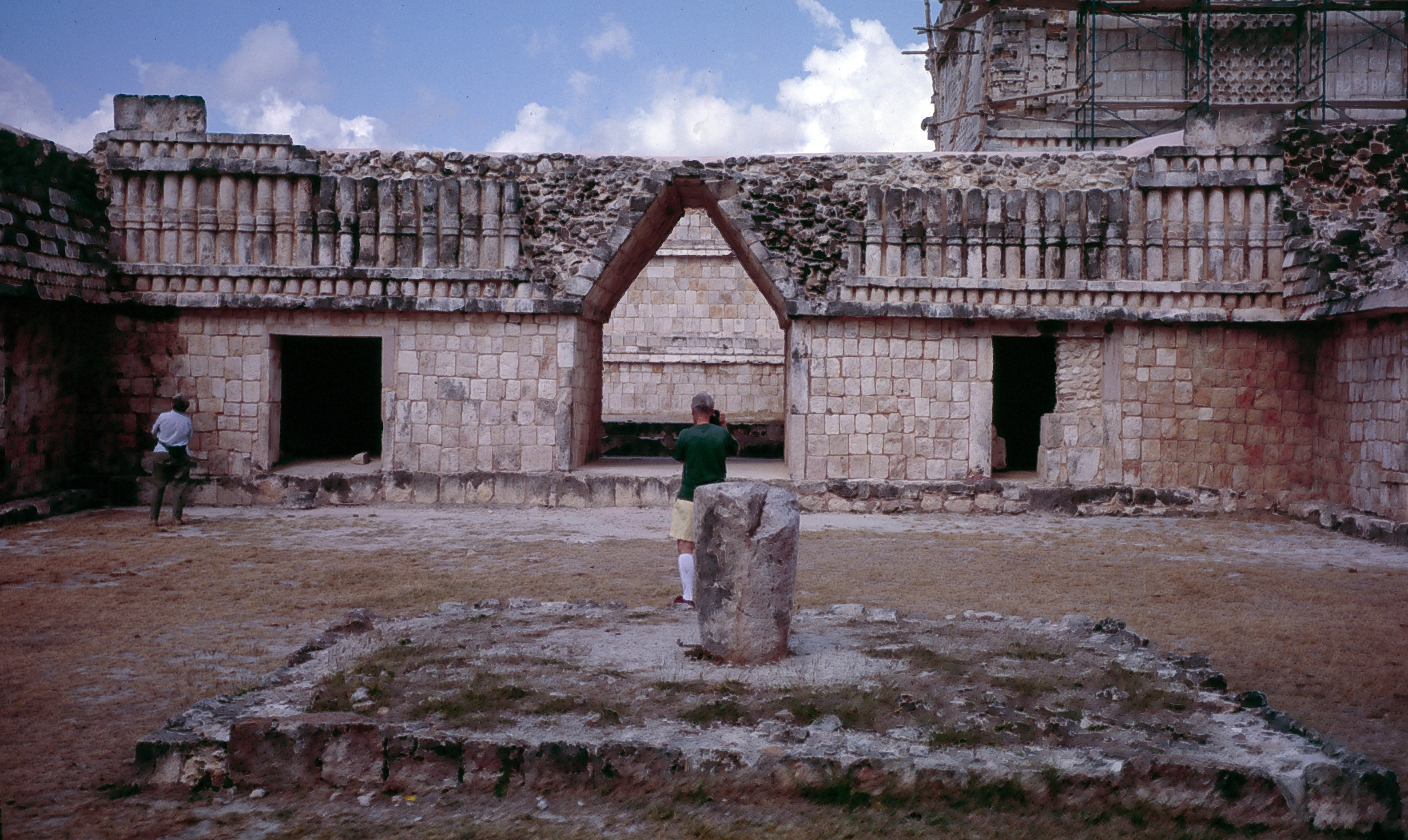 Uxmal, Yucatan, Mexico: Court of the Birds